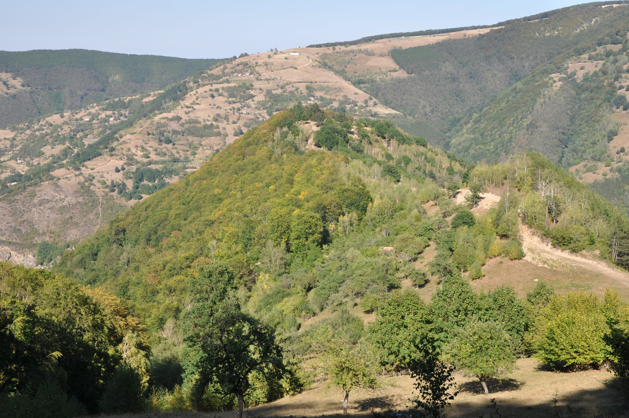 Dacian Fortress of Căpâlna, Alba County, România